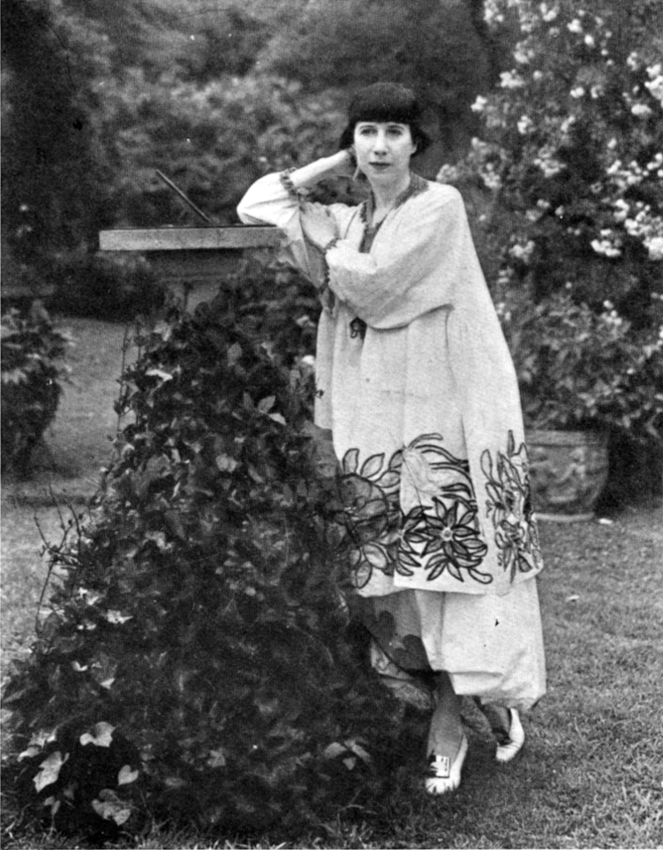 Florine Stettheimer, American artist, in her Bryant Park garden.